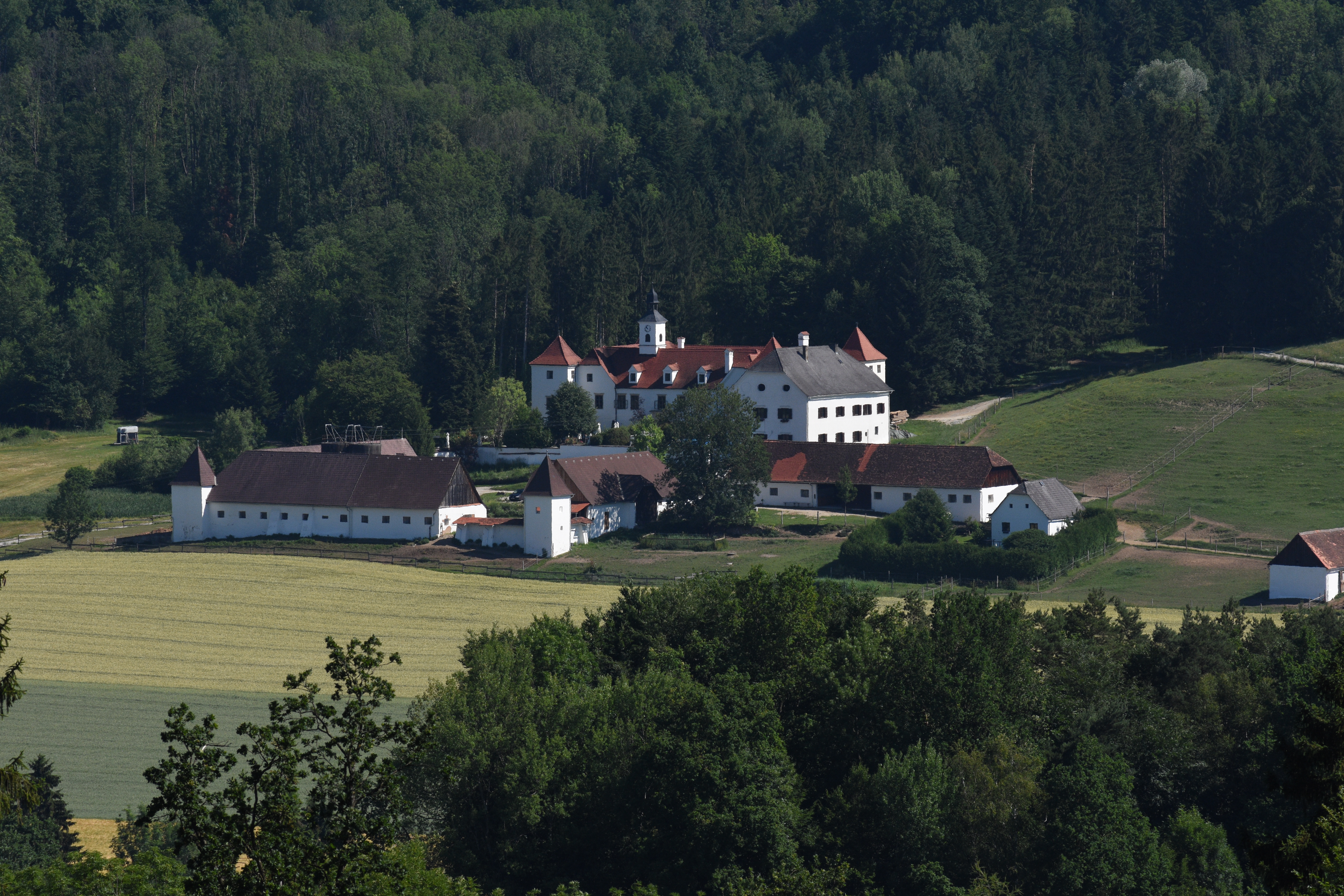 Schloss Dornhofen